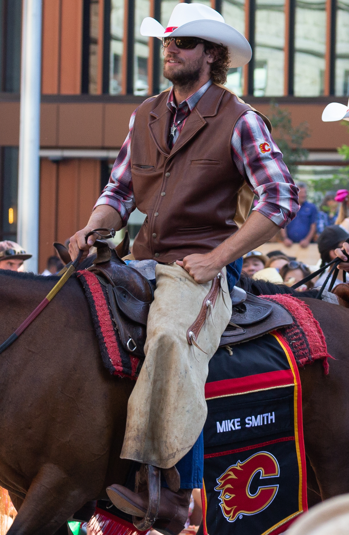 It's been a few years since the missus and I took time off from work to head down to the Calgary Stampede parade. We used to come down for the parade during our days at the University of Calgary, so it was a nice trip down memory lane. Here's Mike Smith and Johnny Hockey himself Johnny Gaudreau. Too bad we had to go and break Jaromir Jagr, would've loved to have seen him here.